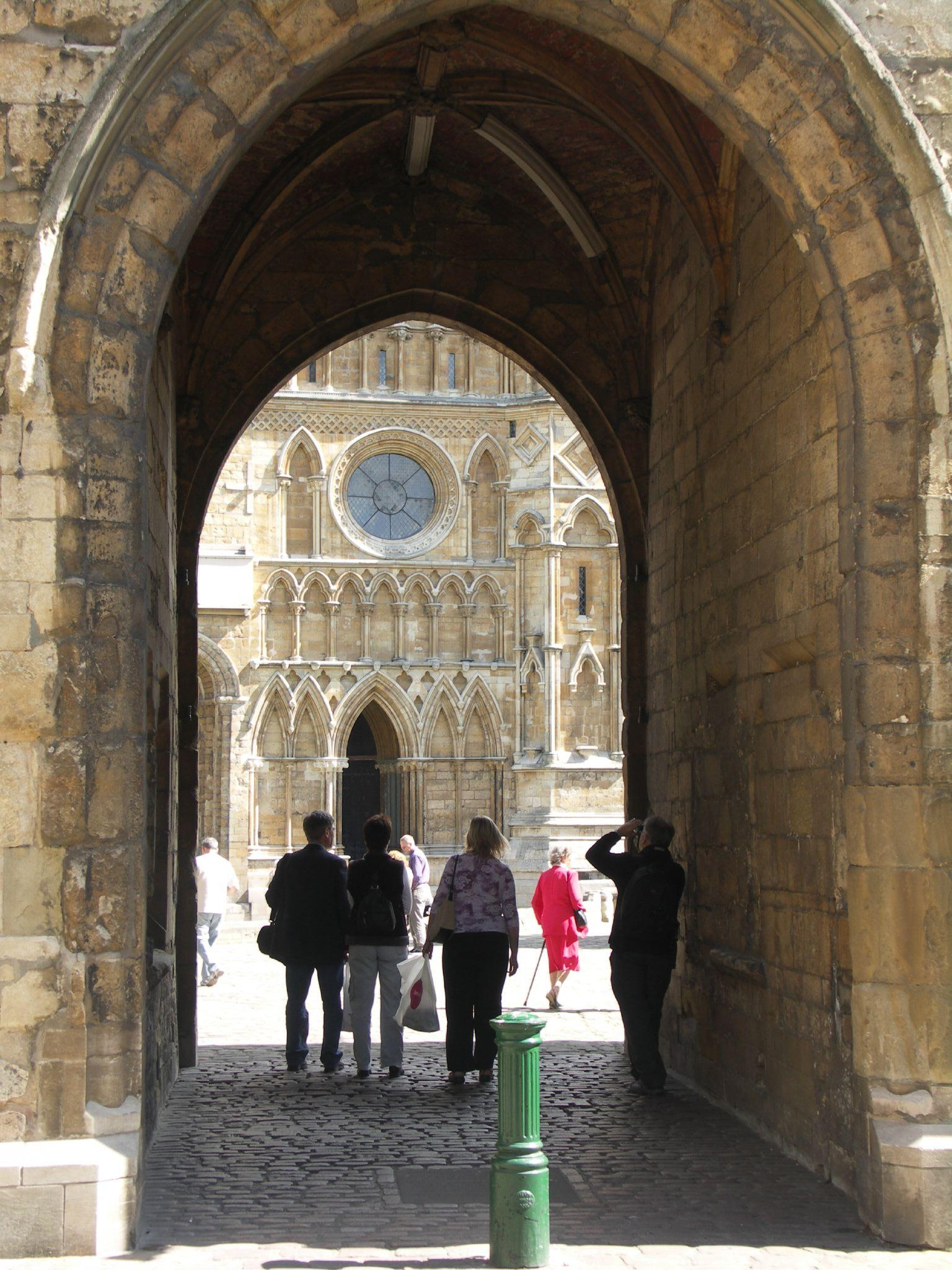 From Creative Commons. By Graham and Sheila.